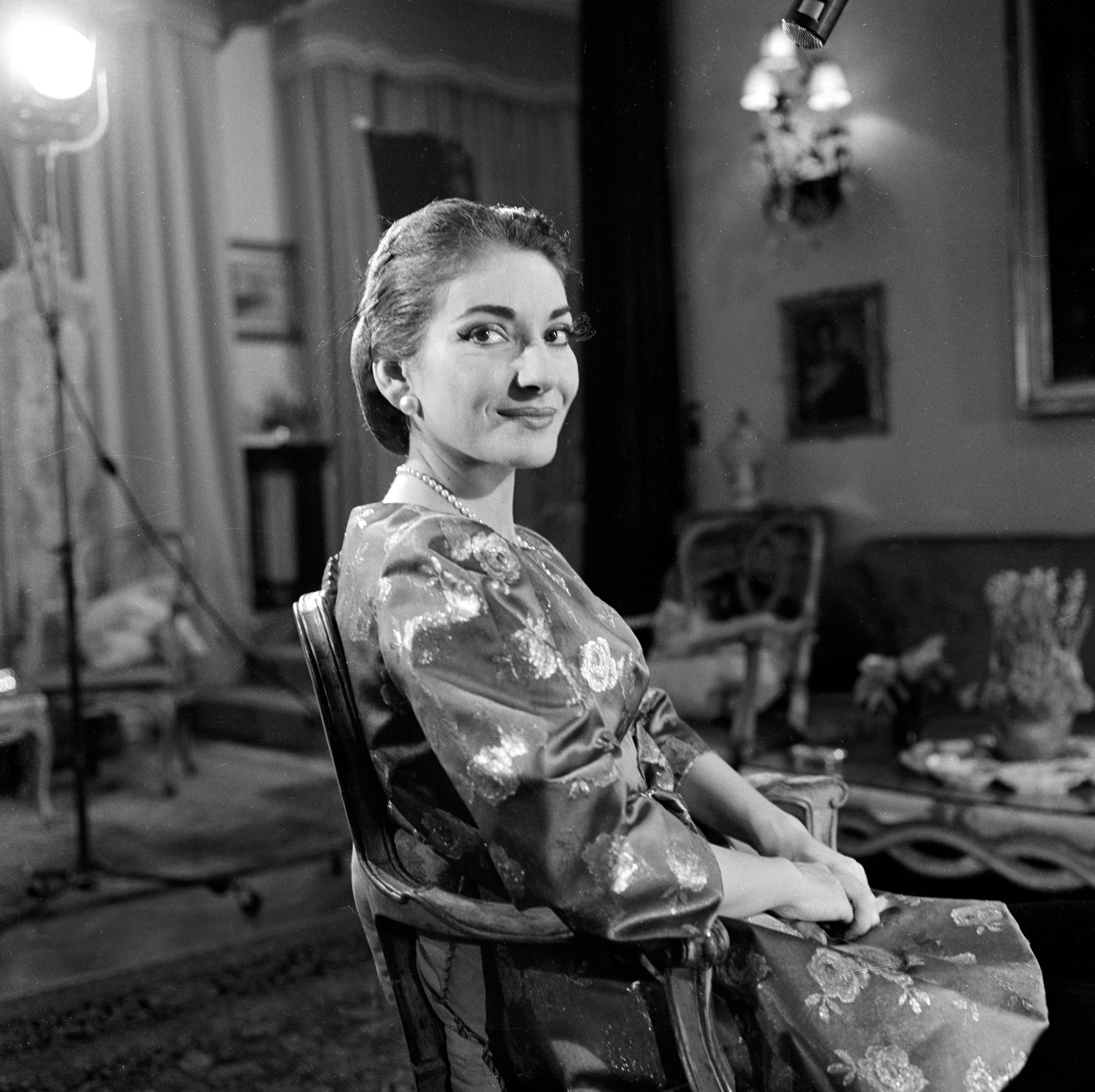 Photo of Maria Callas from the television talk show Small World. The program was hosted by Edward R. Murrow.